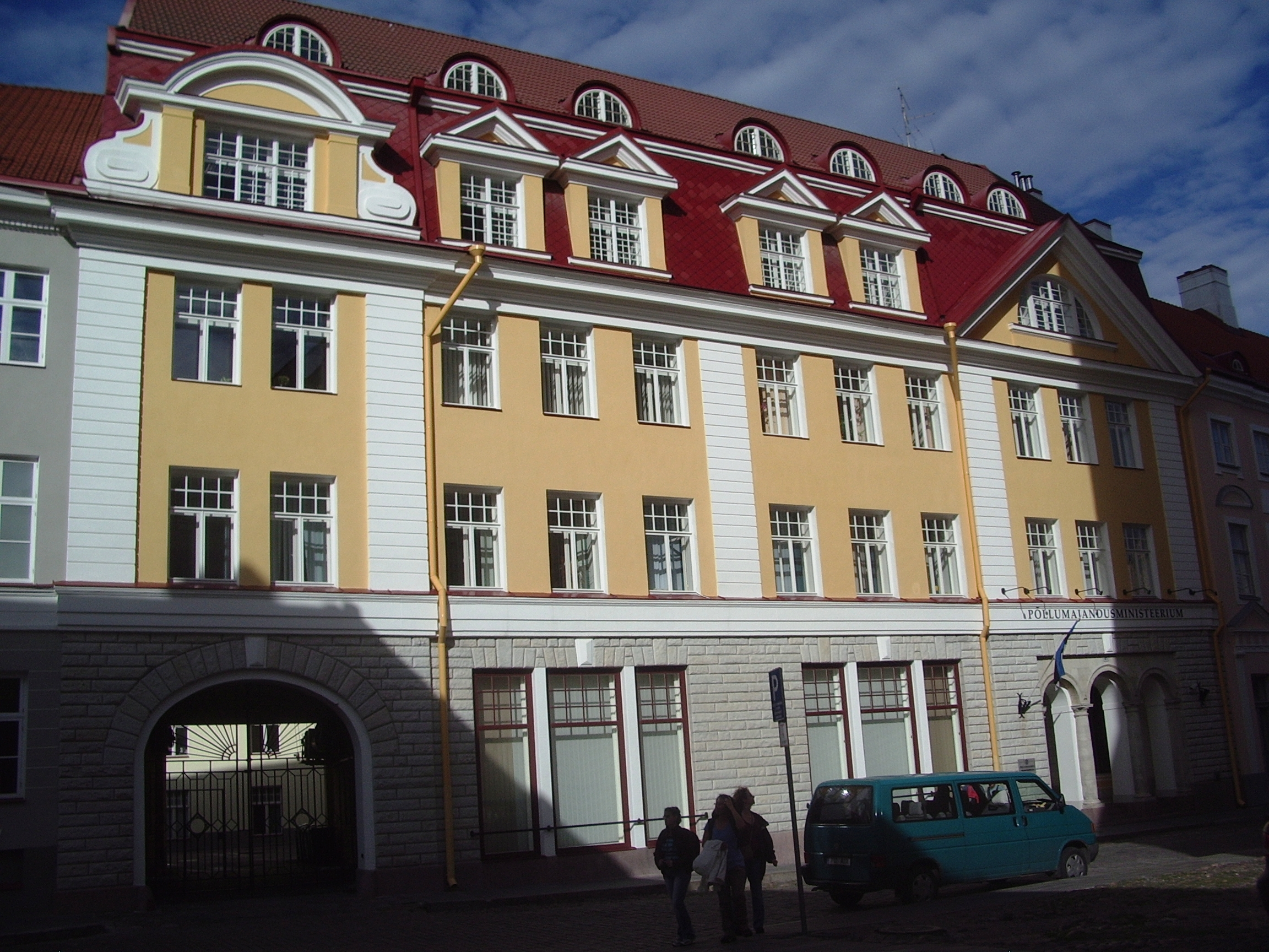 Ministry of Agriculture in Estonia. 39/41 Lai street, Tallinn old town